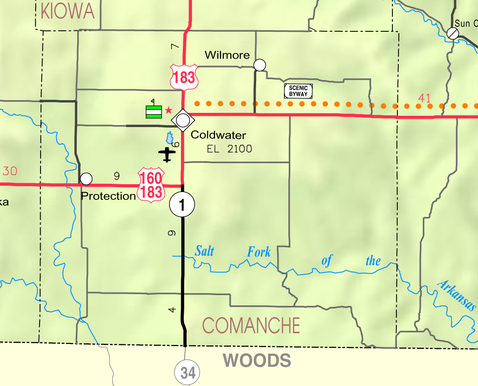 This map of Comanche County, Kansas, USA, is copied at a resolution of 300 pixels/inch from the original PDF file.